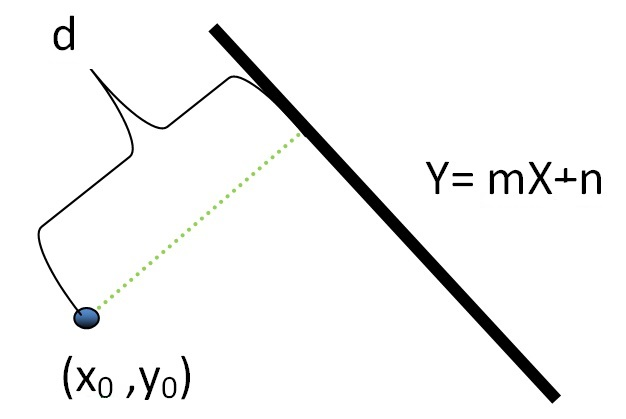 מרחק בין נקודה לישר